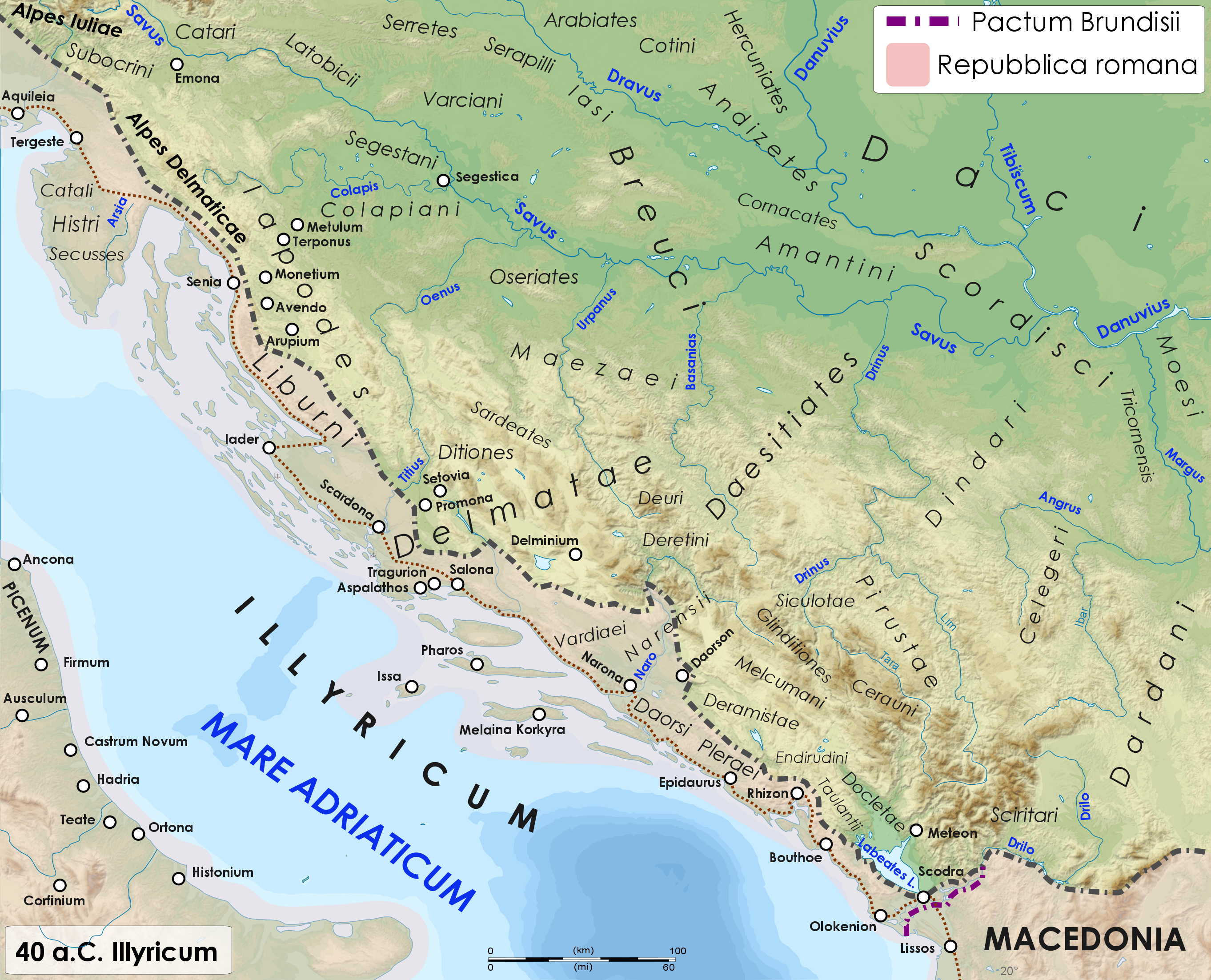 Roman Illyricum in 40 BC and native peoples